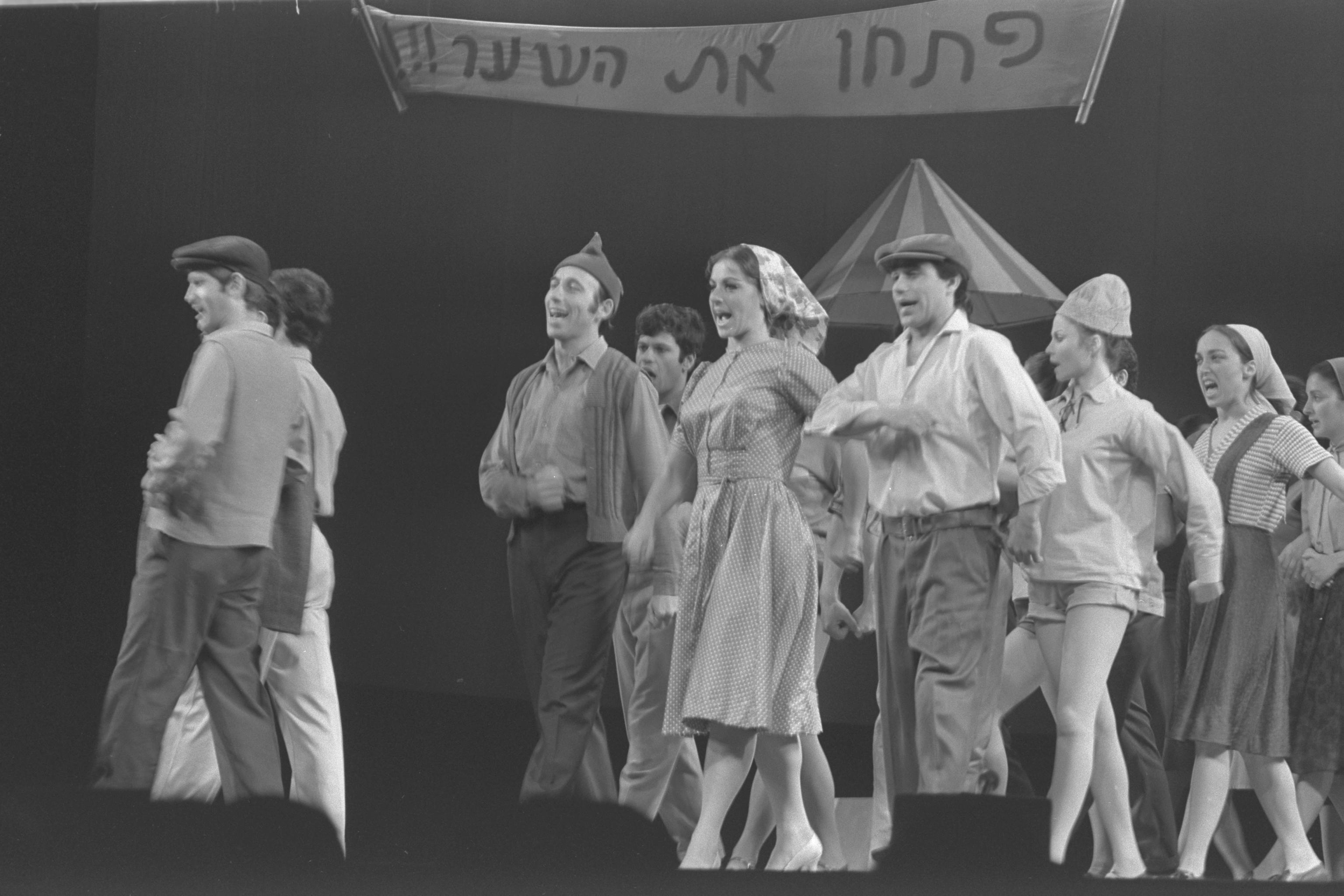 A SCENE IN THE GIORA GODIK'S MUSICAL - LONG LIVE THE HORSES.